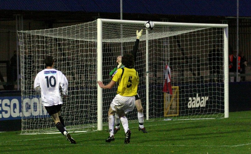 Shaun Whalley takes a shot against Harrogate Town